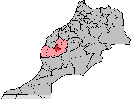 Location of the prefecture Marrakech within the region Marrakech-Tensift-Al Haouz, Morocco. In total, Morocco has 16 regions, subdivided into 62 provinces and 13 prefectures.